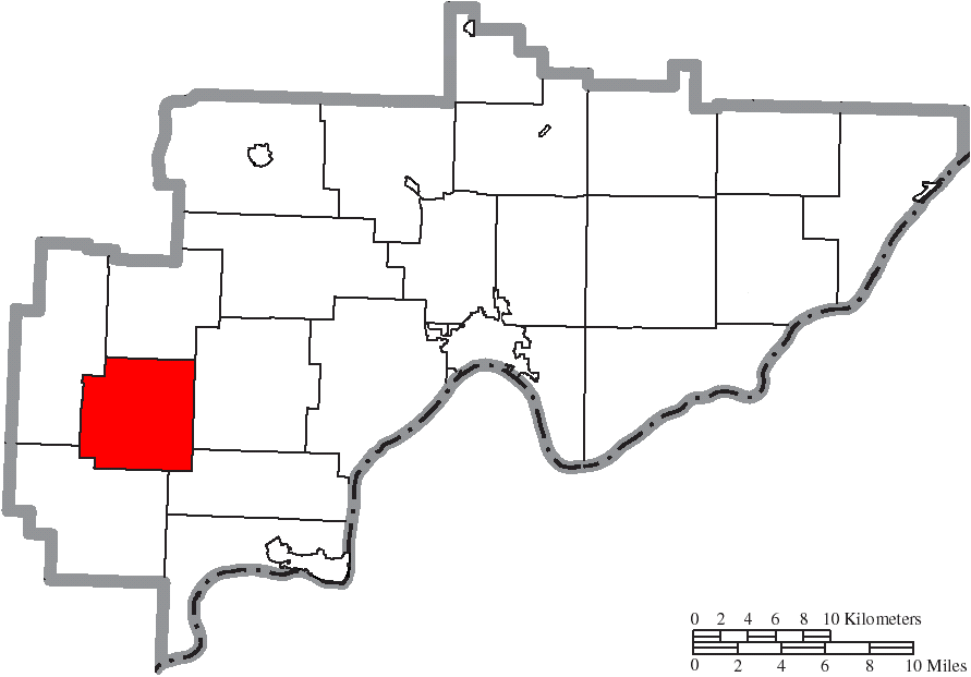 Map of the municipal and township boundaries of Washington County, Ohio, United States, as of the 2000 census, with the location of Fairfield Township highlighted. Township borders are shown only in unincorporated areas in order to differentiate incorporated and unincorporated areas more clearly.